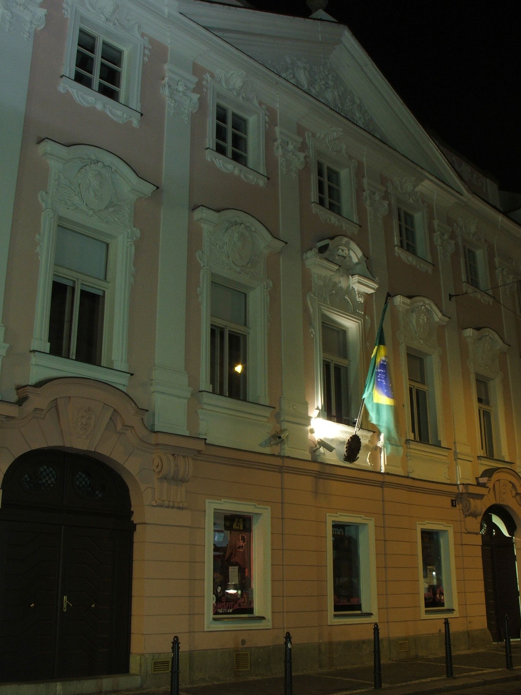 Neuberk palace - which host as well Embassy of Brazil in Prague - Nové Město, Czechia Panská street.